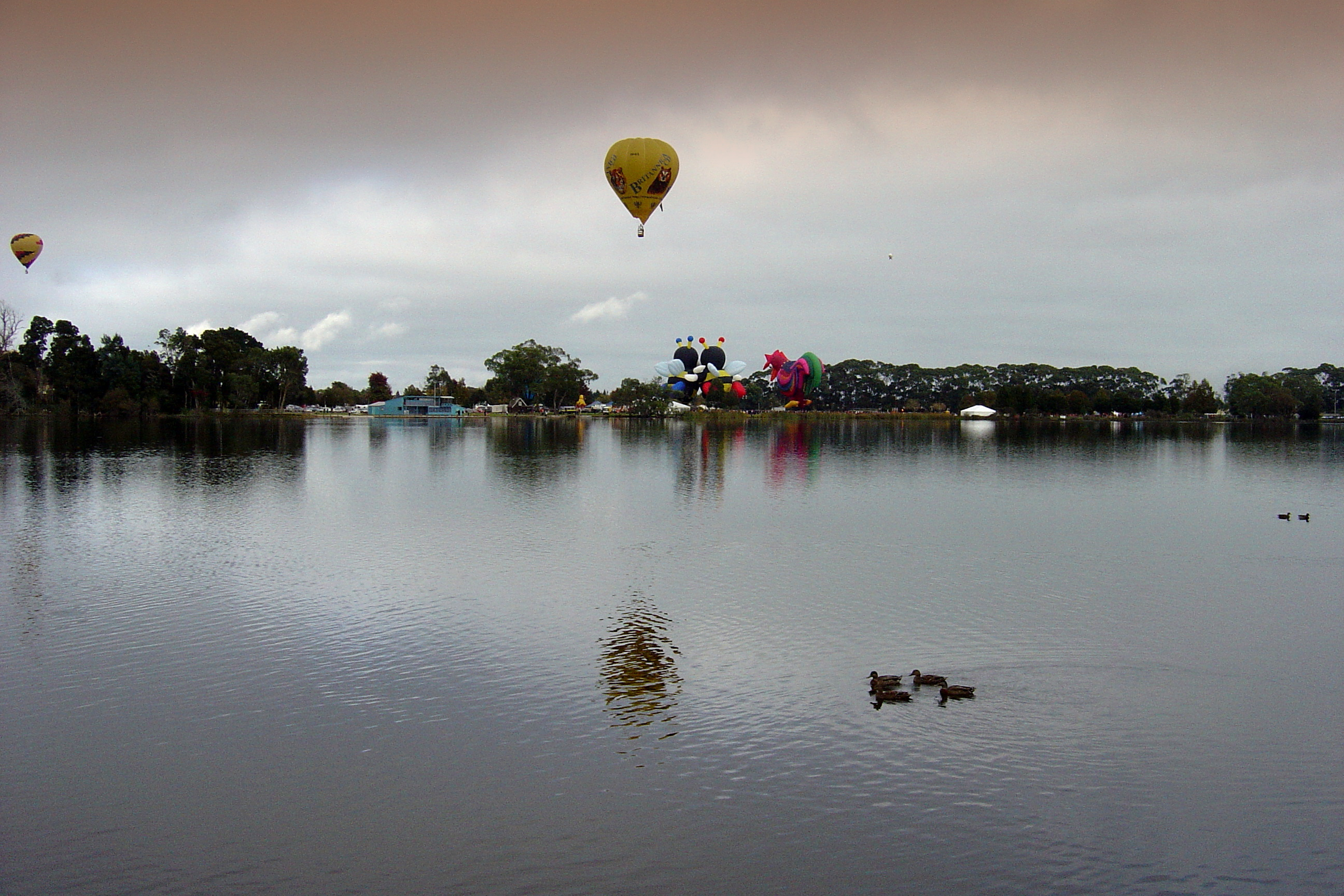 Hot air balloons float over Innes Common, Hamilton